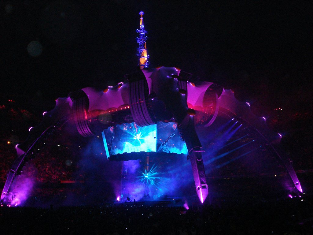 "Moment of Surrender" performed during the U2 360° Tour